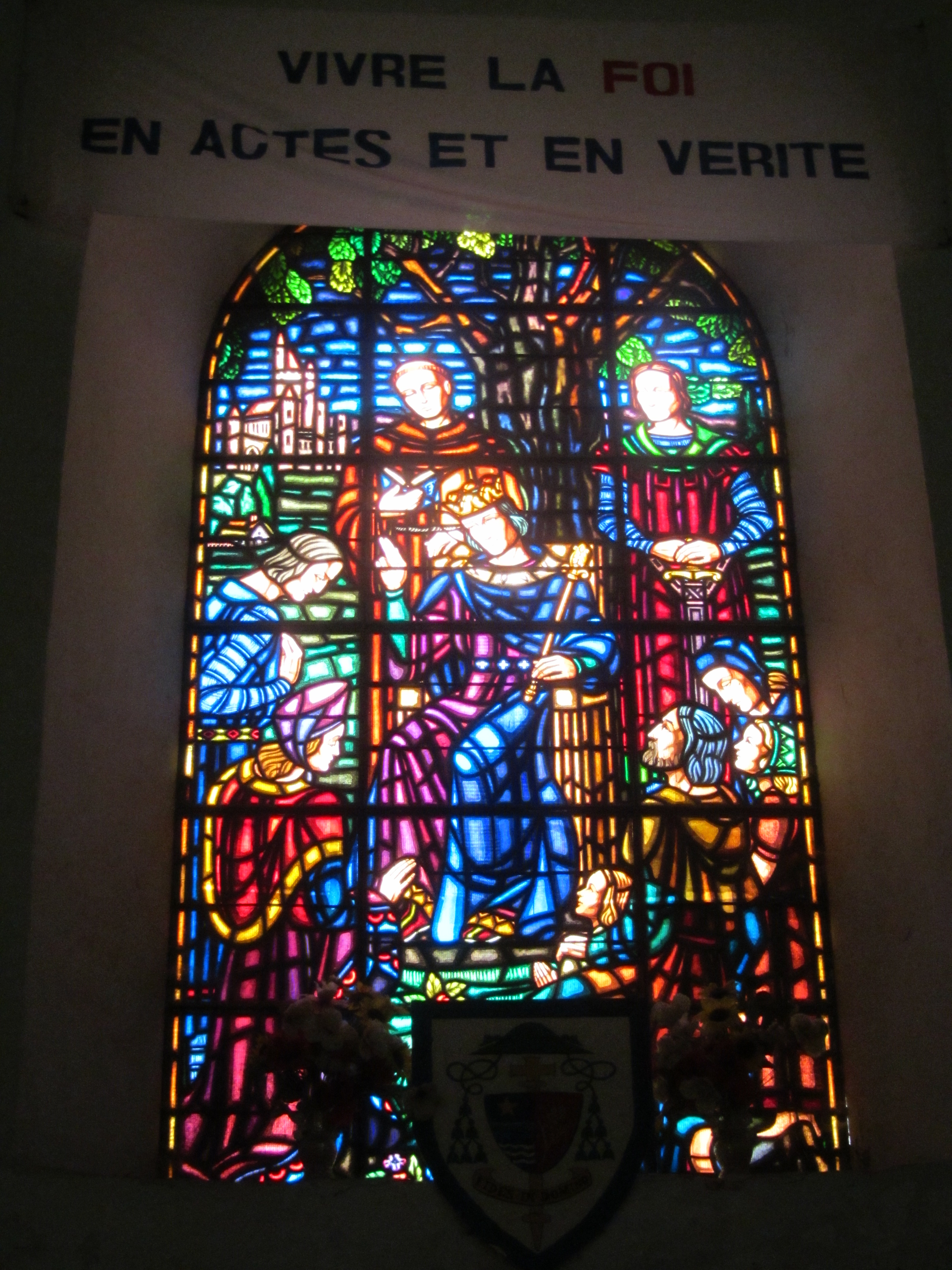 This document was produced using the Canon PowerShot SX230 HS lent by Wikimedia France.